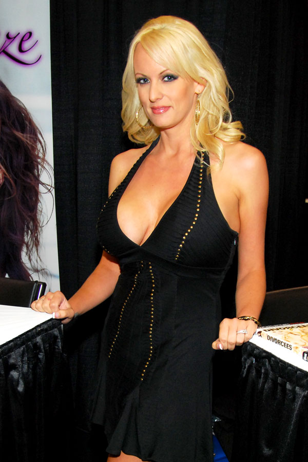 Stormy Daniels at Exxxotica Chicago known as the Largest Event Dedicated to Love and Sex at Donald E. Stephens Convention Center in Rosemont, IL, USA (July 13, 2013)